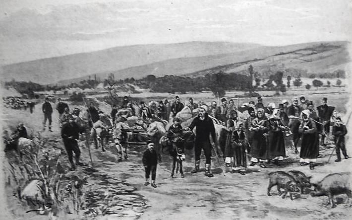 Macedono-bulgarian refugee crossing the Ottoman - Bulgaria border after the Ilinden Uprising